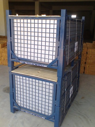 A picture of a steel cage used as reusable packaging